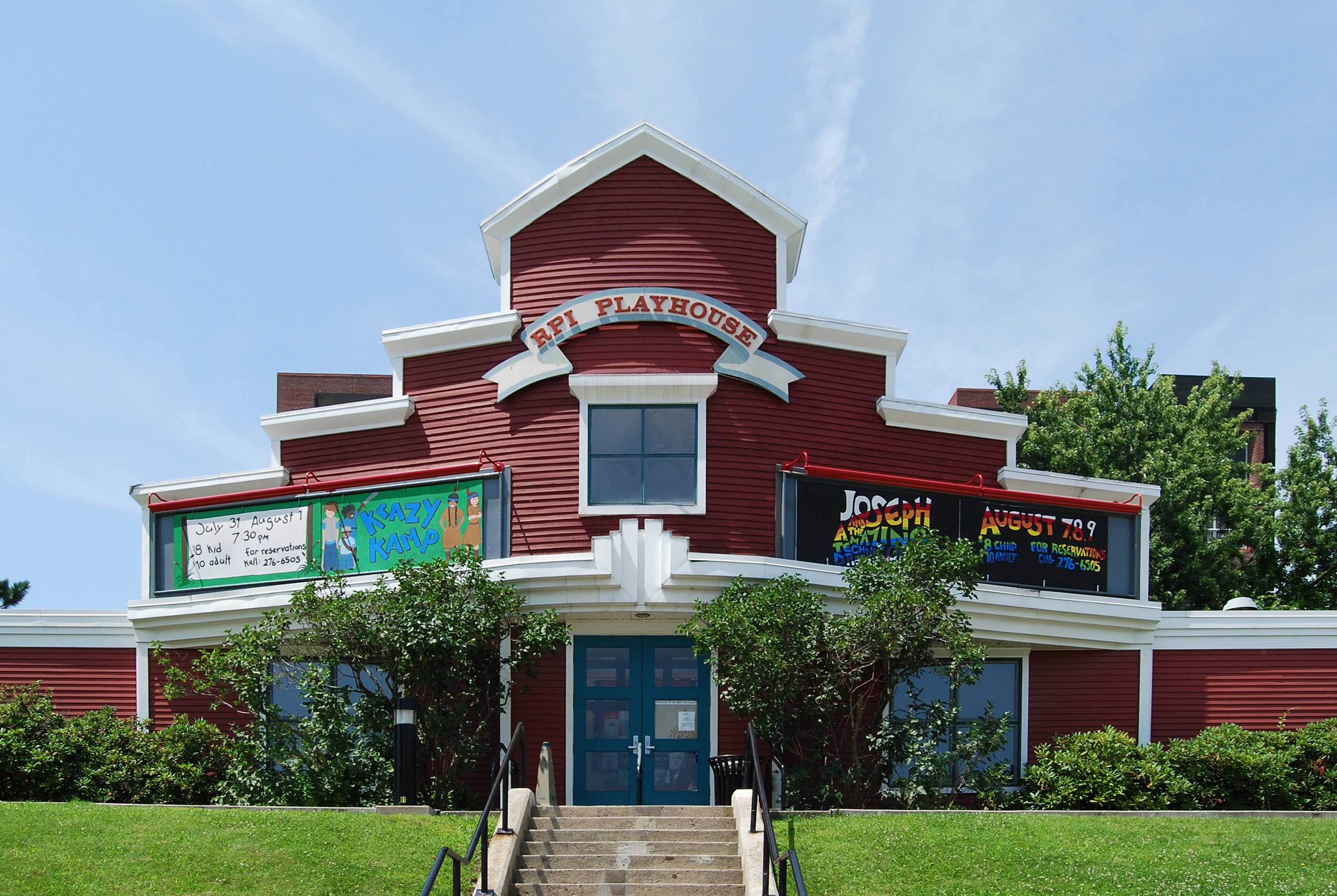 The RPI Playhouse, on the campus of Rensselaer Polytechnic Institute in Troy, New York, United States